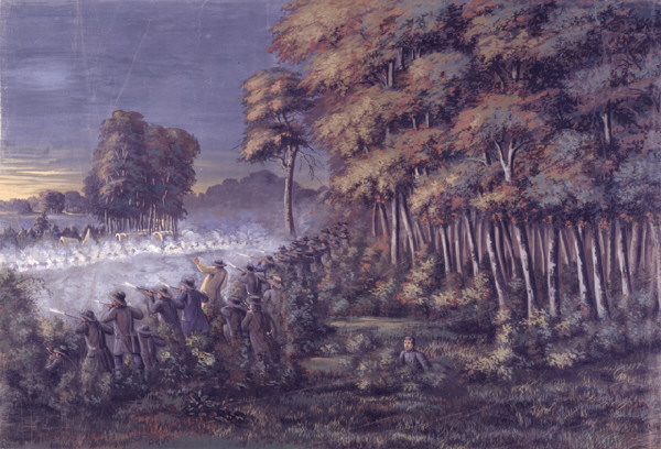 "The Battle of Crooked River" by C.C.A. Christensen